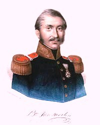 Steendruk van Jean Baptiste Baron van Merlen door E. Spanier